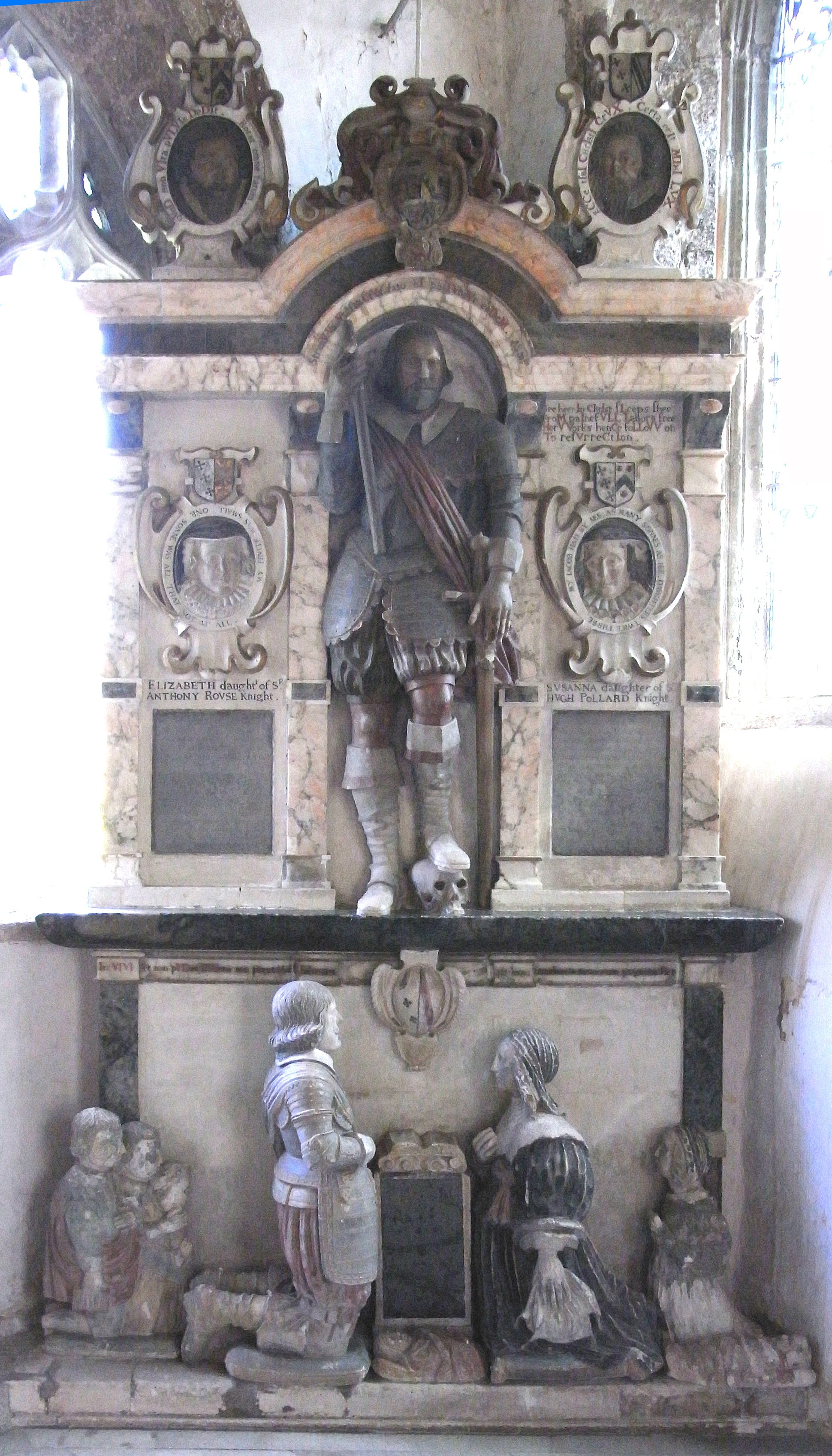 Monument to John Northcote (1570-1632), Newton St Cyres Church, Devon